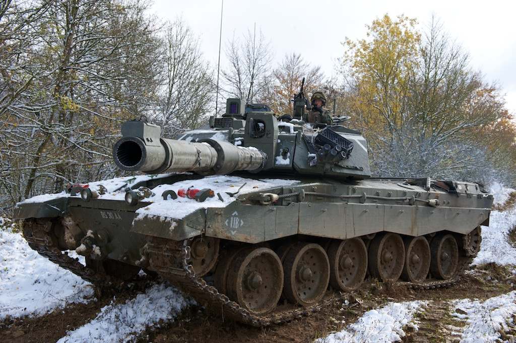 HOHENFELS, Germany - A Challenger 2 tank from the Britished Armed Force's 3rd Battalion, Mercian Regiment, waits in position for a possible attack, as a part of Saber Junction, on Hohenfels Training Area, Oct. 28. Saber Junction is a large-scale, joint, multinational, military training event with U.S. Soldiers and more than 1,800 multinational forces.